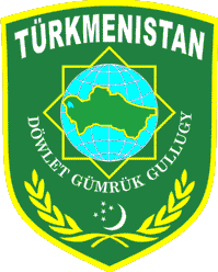 Emblema